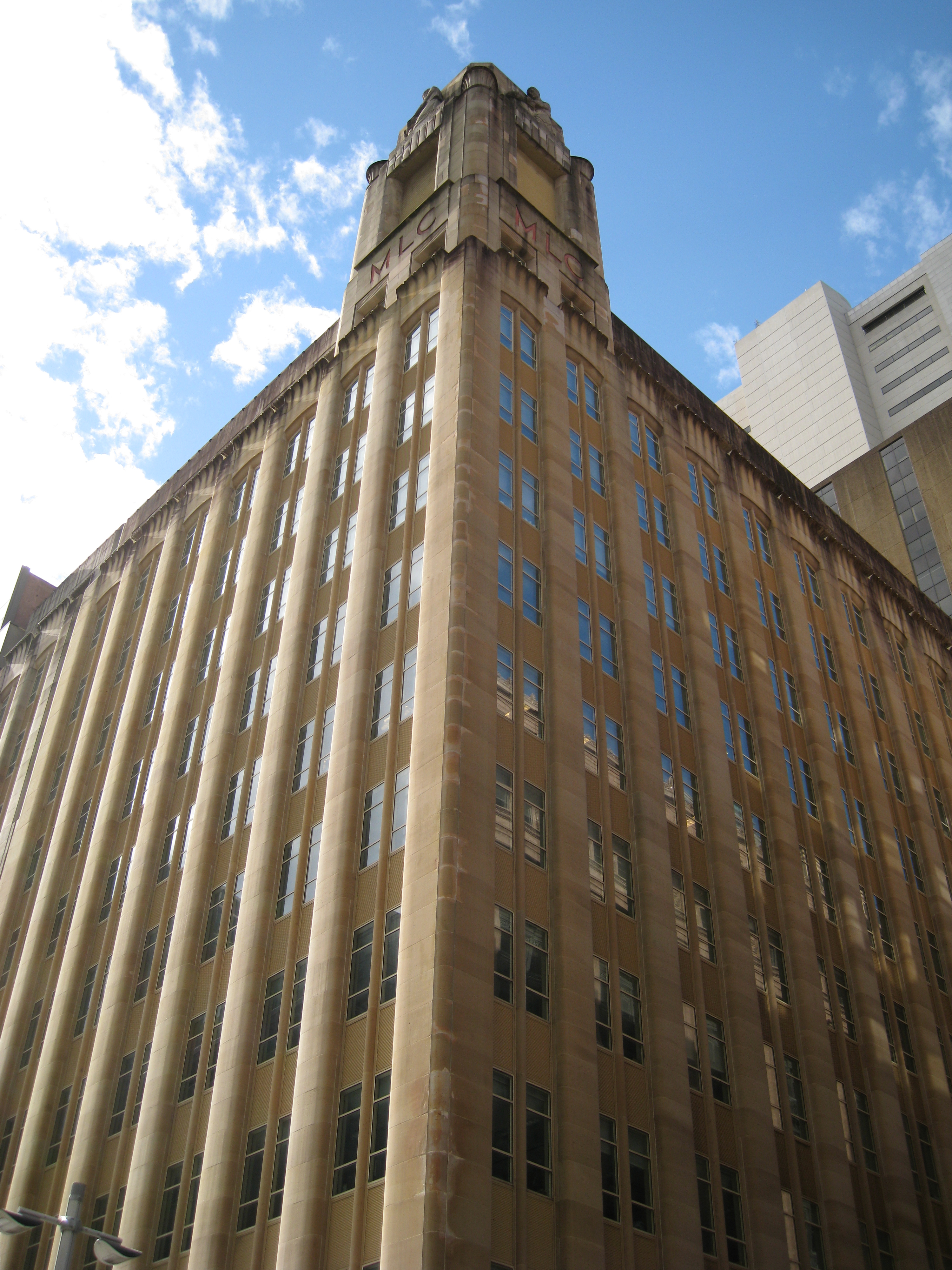 The Henry Davis York building (AKA the Mutual Life & Citizens' Building) in Martin Place, Sydney, Australia